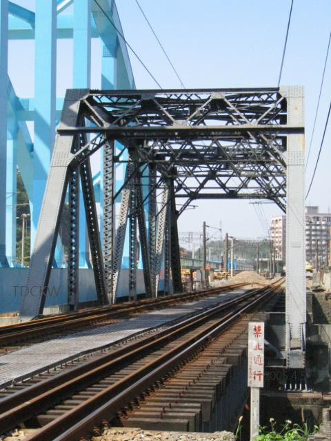 中文（台灣）: 台鐵基隆河橋八堵橋 was filmed by TDCKW on 20050405